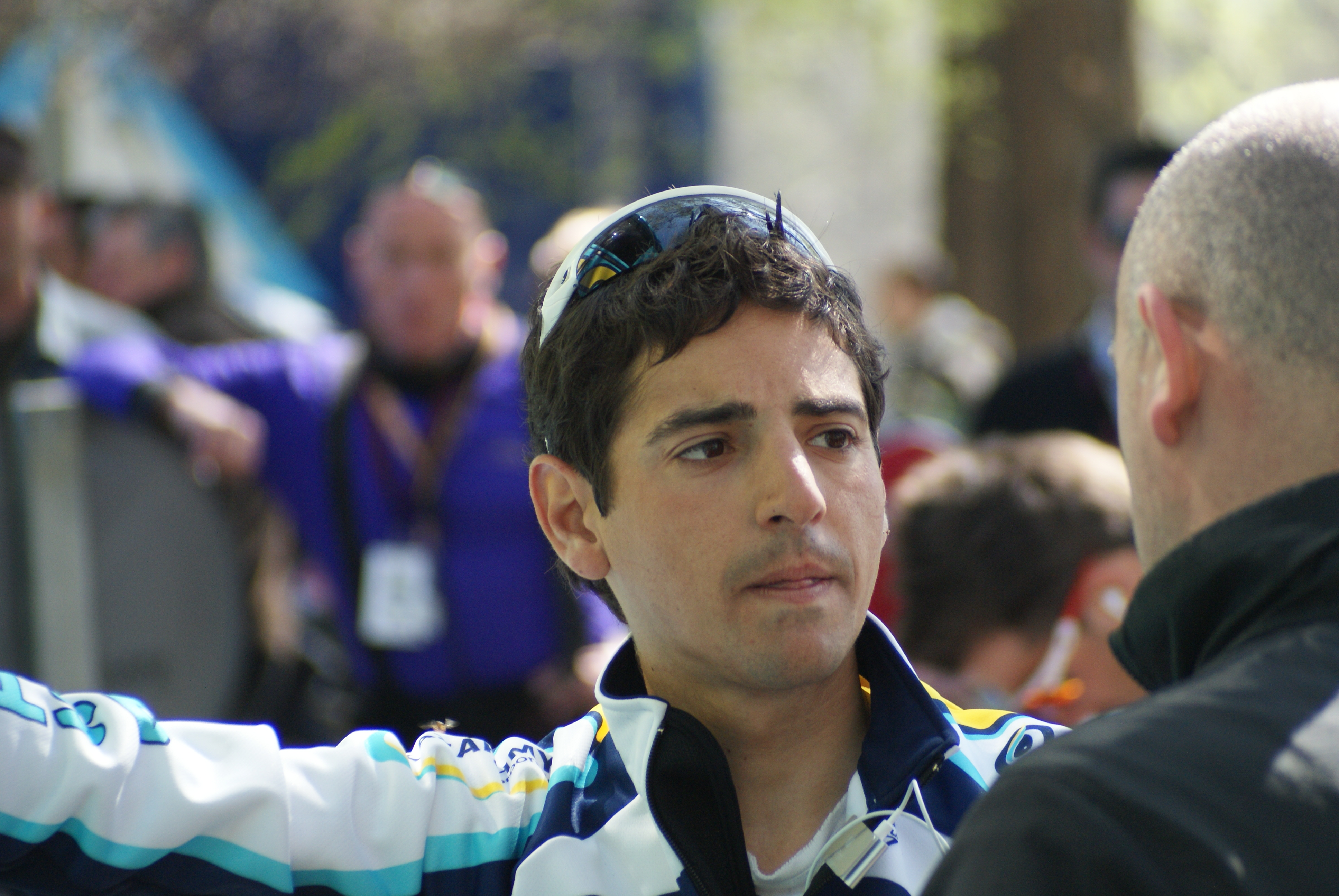 Spanish road bicycle racer, Jesús Hernandéz, of the Team Astana in Palencia (Spain) during Vuelta a Castilla y León.